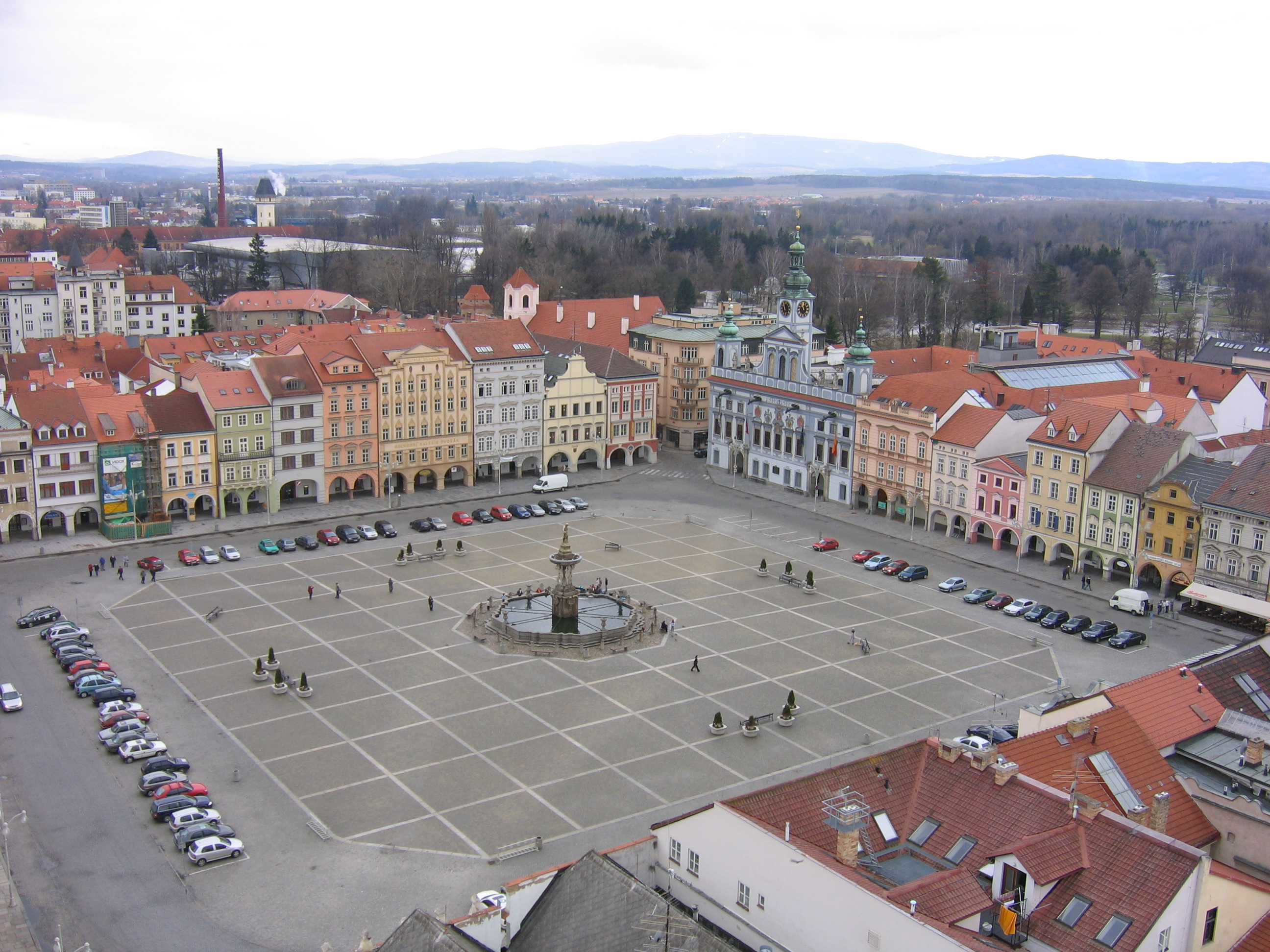 Main square (Náměstí Přemysla Otakara II.) of České Budějovice, Czech Republic, as seen from the Black Tower